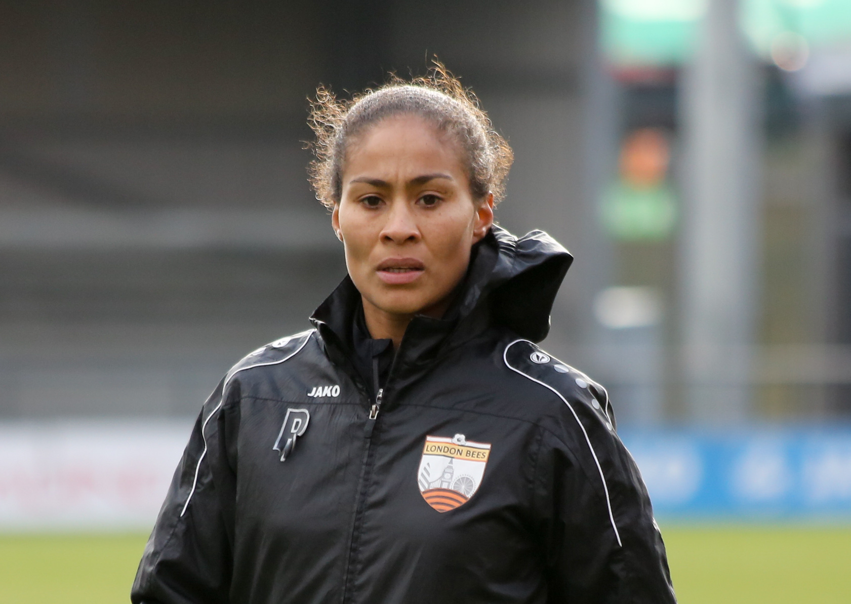 London Bees v Tottenham Hotspur LFC, 10 February 2019 - Rachel Yankey of London Bees before the start of the match.